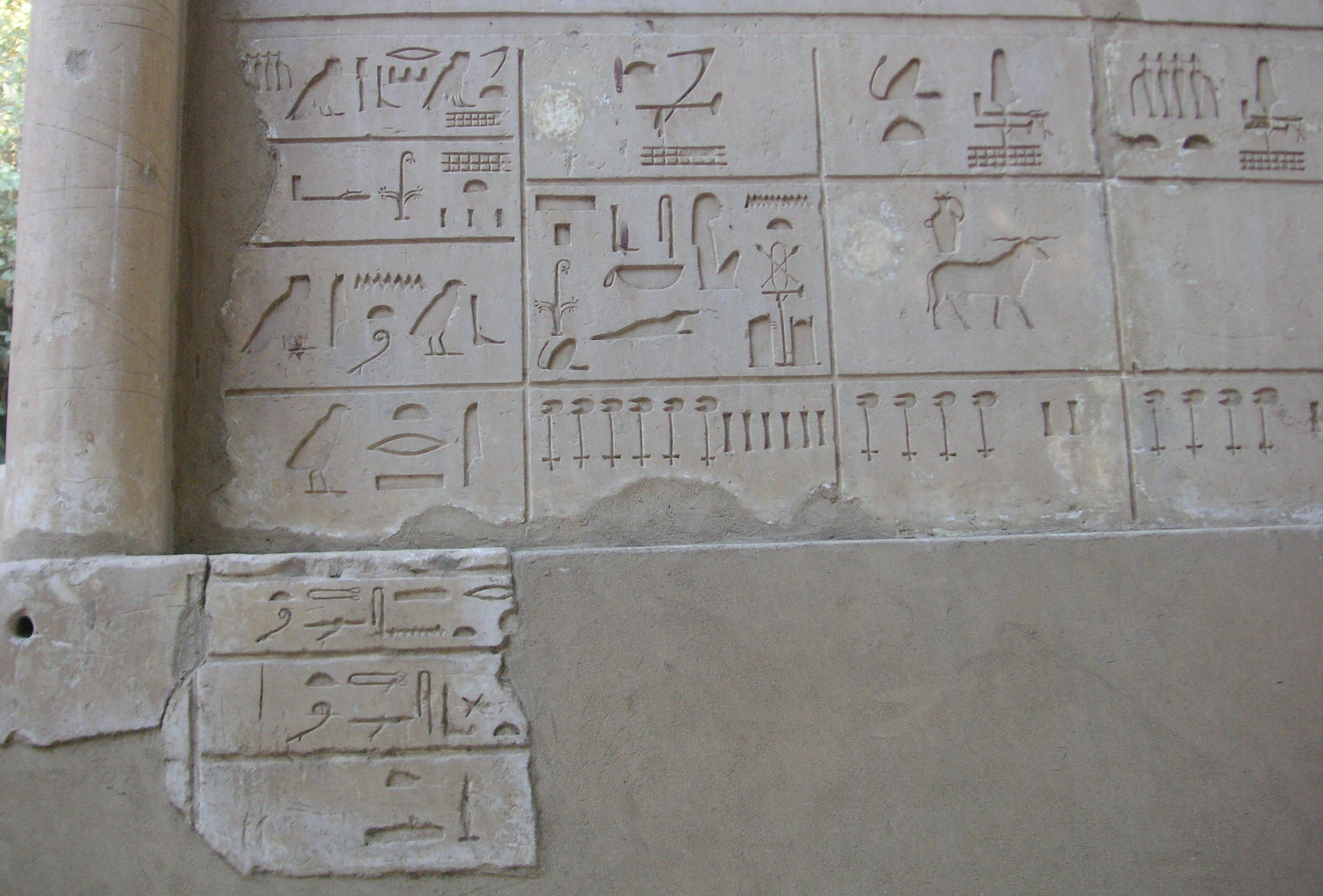 Legend to the nomelist of Sesostris I. (Senwoseret I.) at the White Chapel in Karnak